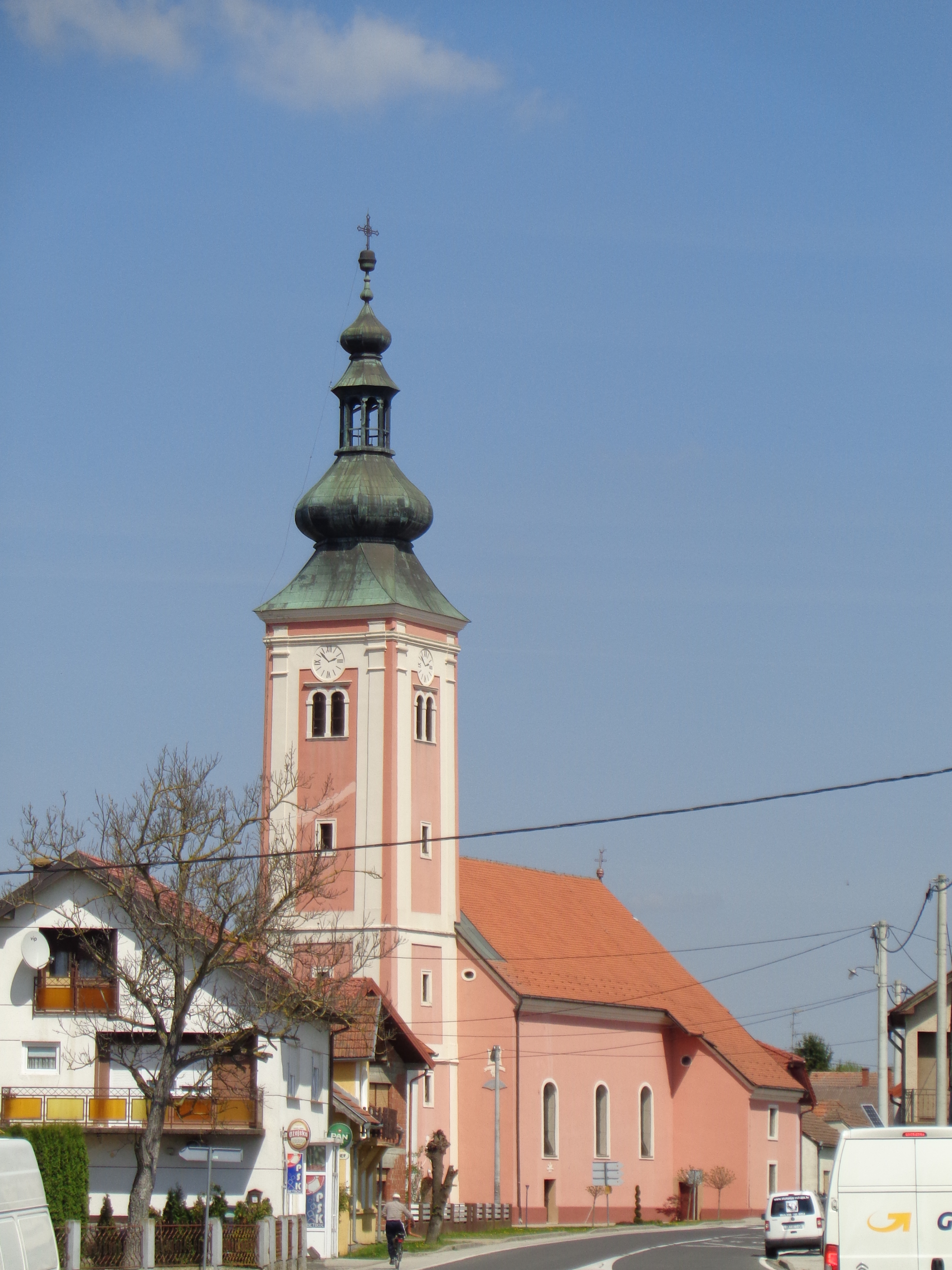 Sveti Juraj u Trnju village, Donji Kraljevec municipality, Medjimurje County, Croatia - Saint George's Church